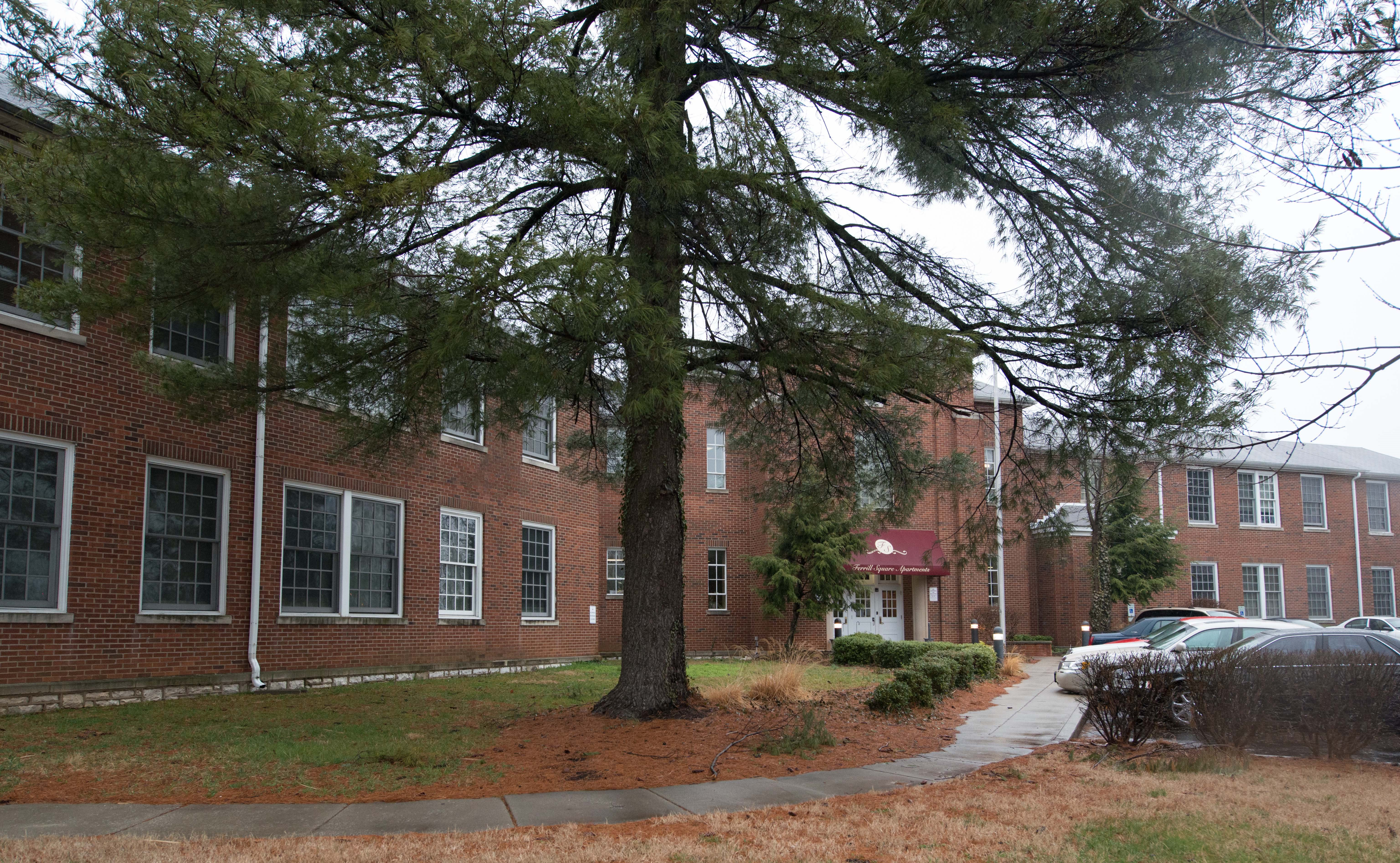 The building of the now defunct Douglass School, 465 Price Road, Lexington, Kentucky, built in 1947 for African American students in Fayette County; placed on the National Register of Historic Places in 1998.